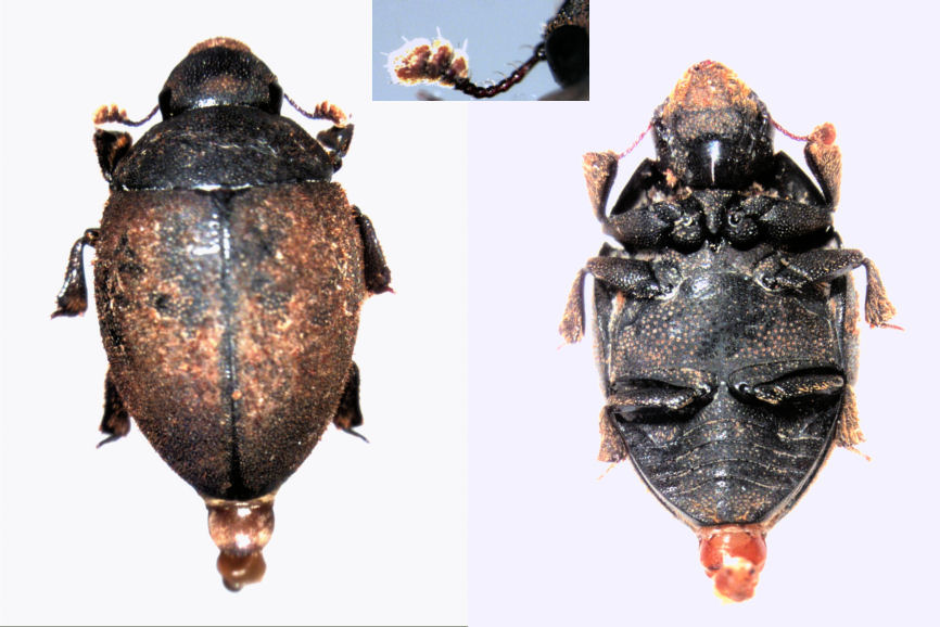 adult Nosodendron ovatum